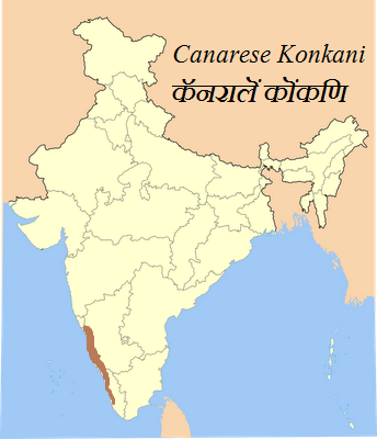 A map of the distribution of native Canarese Konkani speakers in India